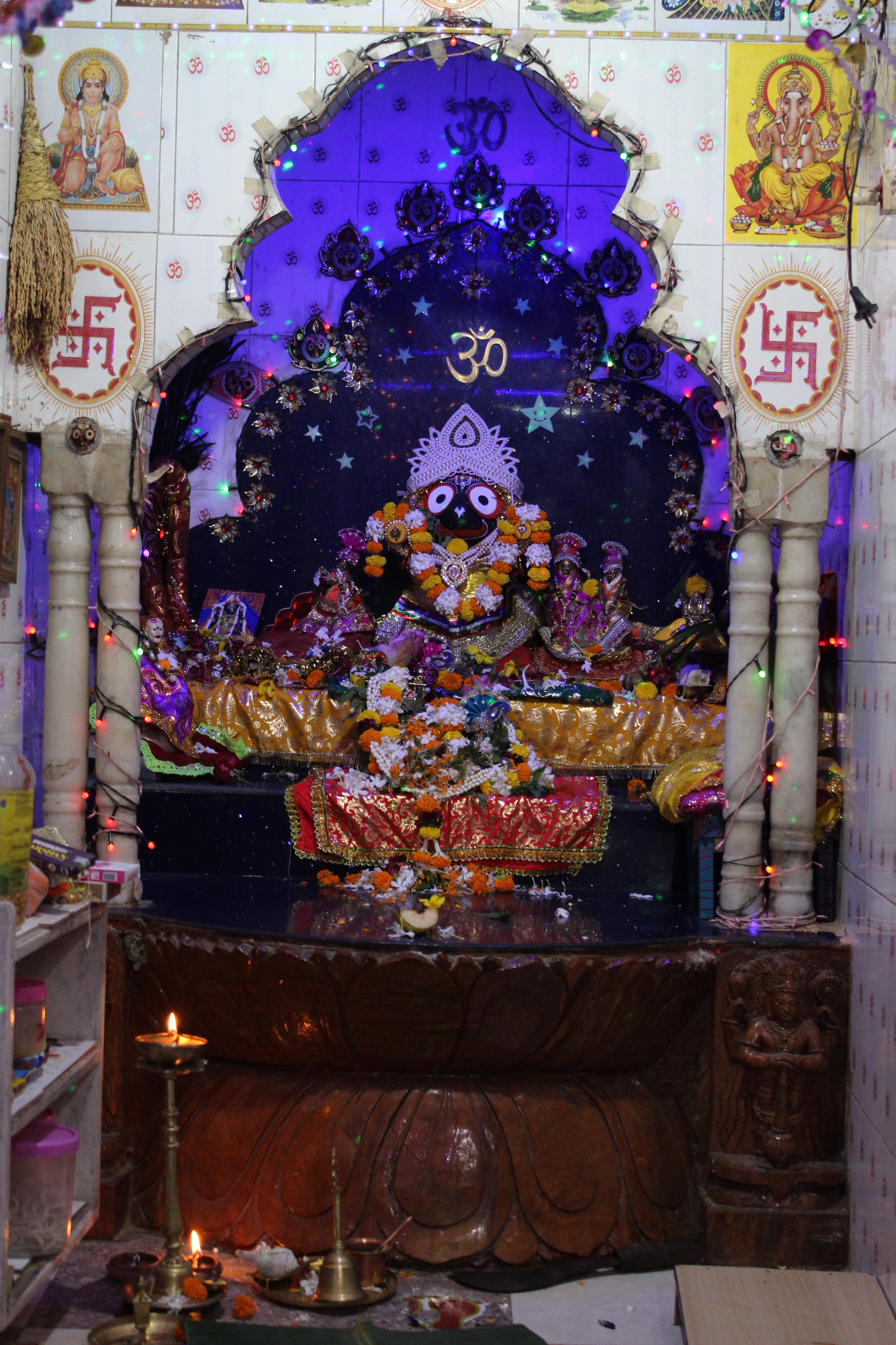 Krishna Janmashtami, also known simply as Janmashtami or Gokulashtami, is an annual Hindu festival that celebrates the birth of Krishna, the eighth avatar of Vishnu